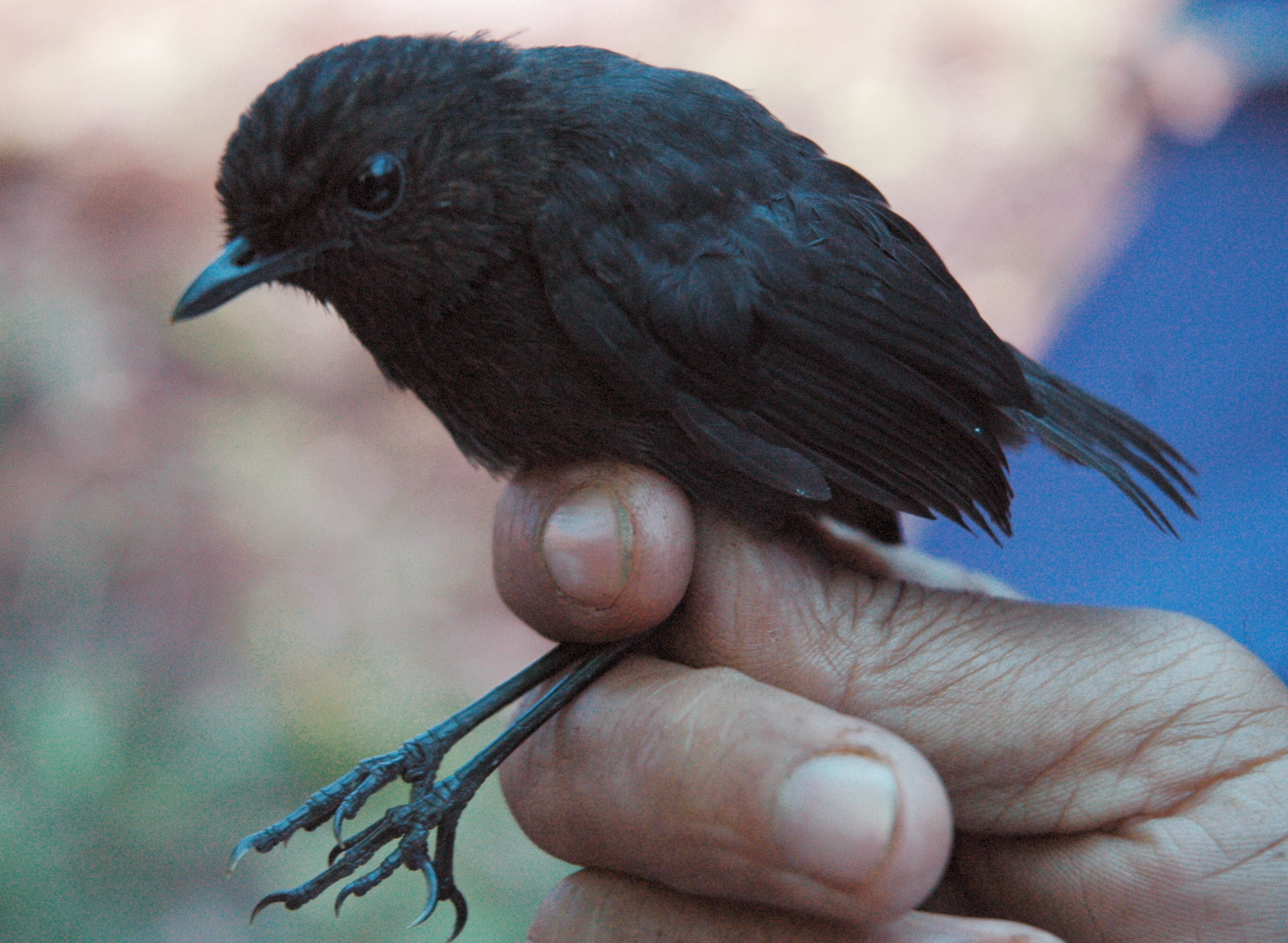 Immature white-browed shortwing, Mt. Hamiguitan, Philippines